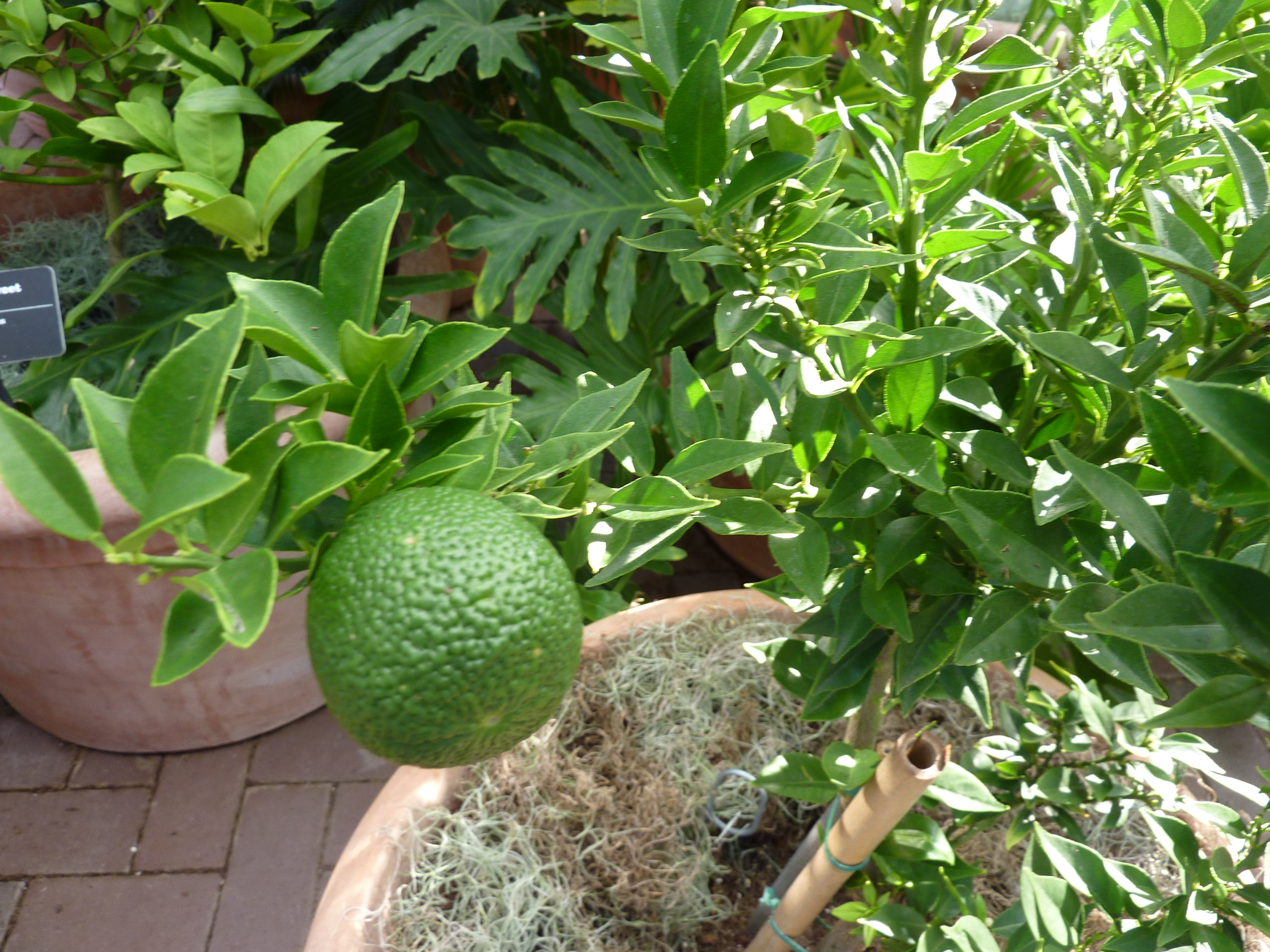 Sour orange, Citrus aurantium var. myritifolia 'Chinotto', in the Linnean House at the Missouri Botanical Garden.